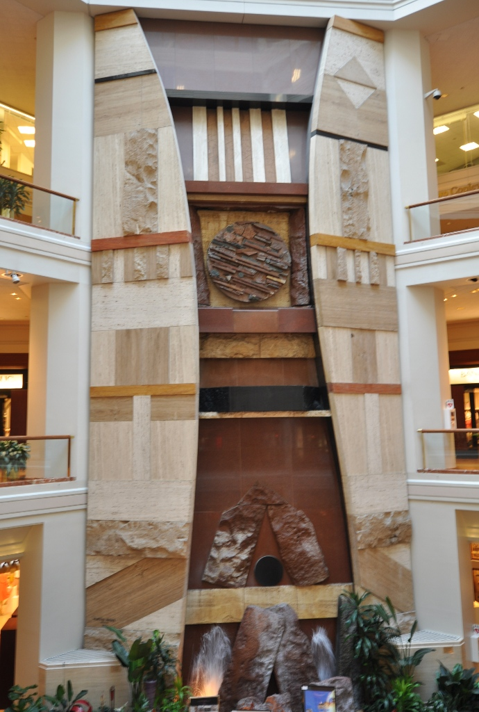 The waterfall inside Boston's Copley Place shopping mall.